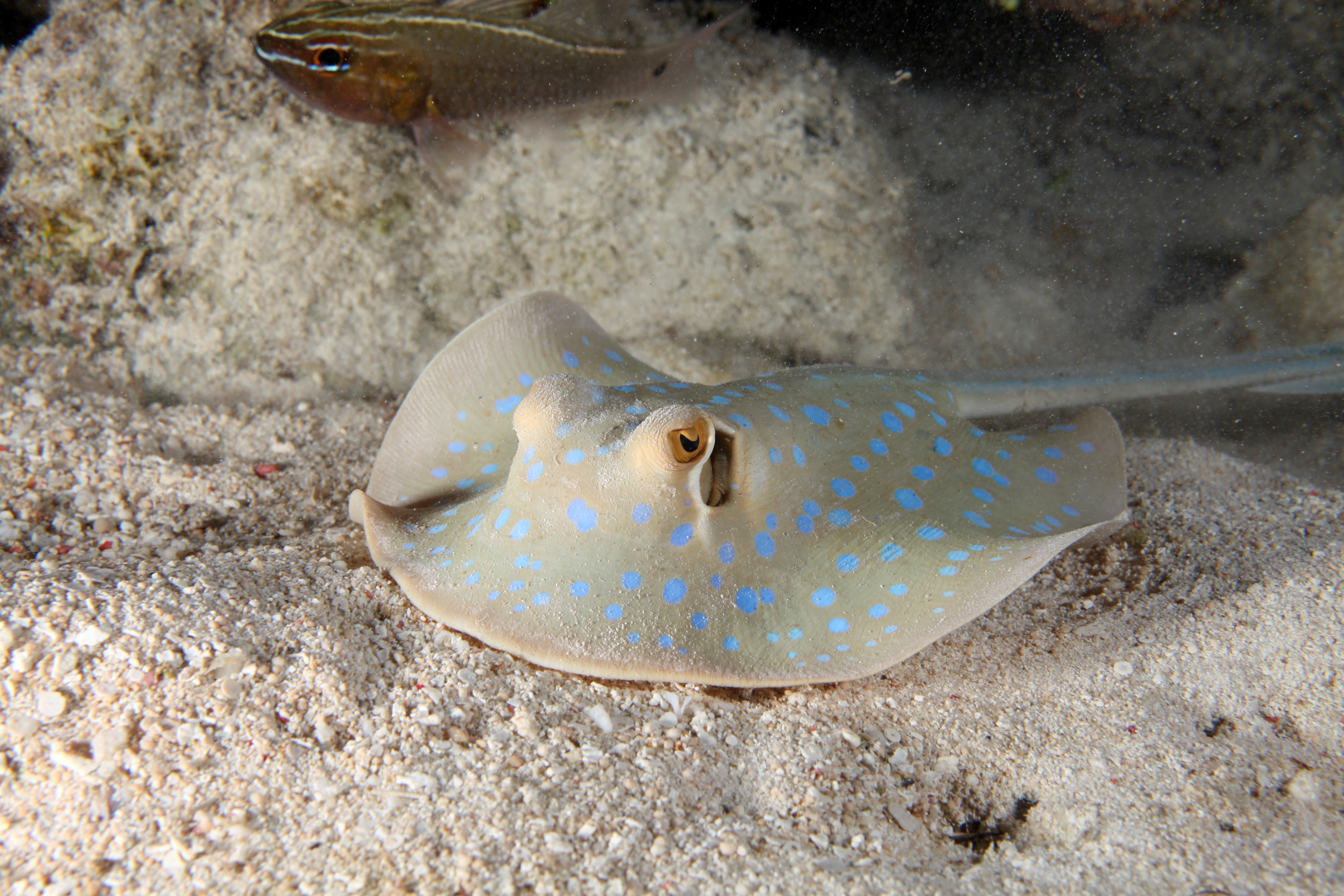 house reef blue spotted stingray (Taeniura lymma).